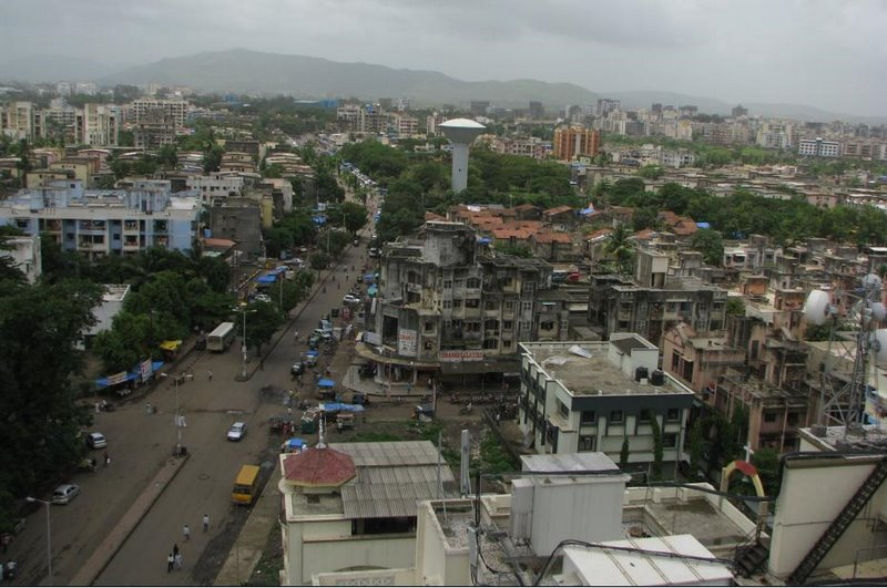 View of a part of Kalamboli township. The sectors 5, 4E, 2 and 3E are visible. Picture taken in 2008 from top of Satyam Height, plot no. 22, sector-8.